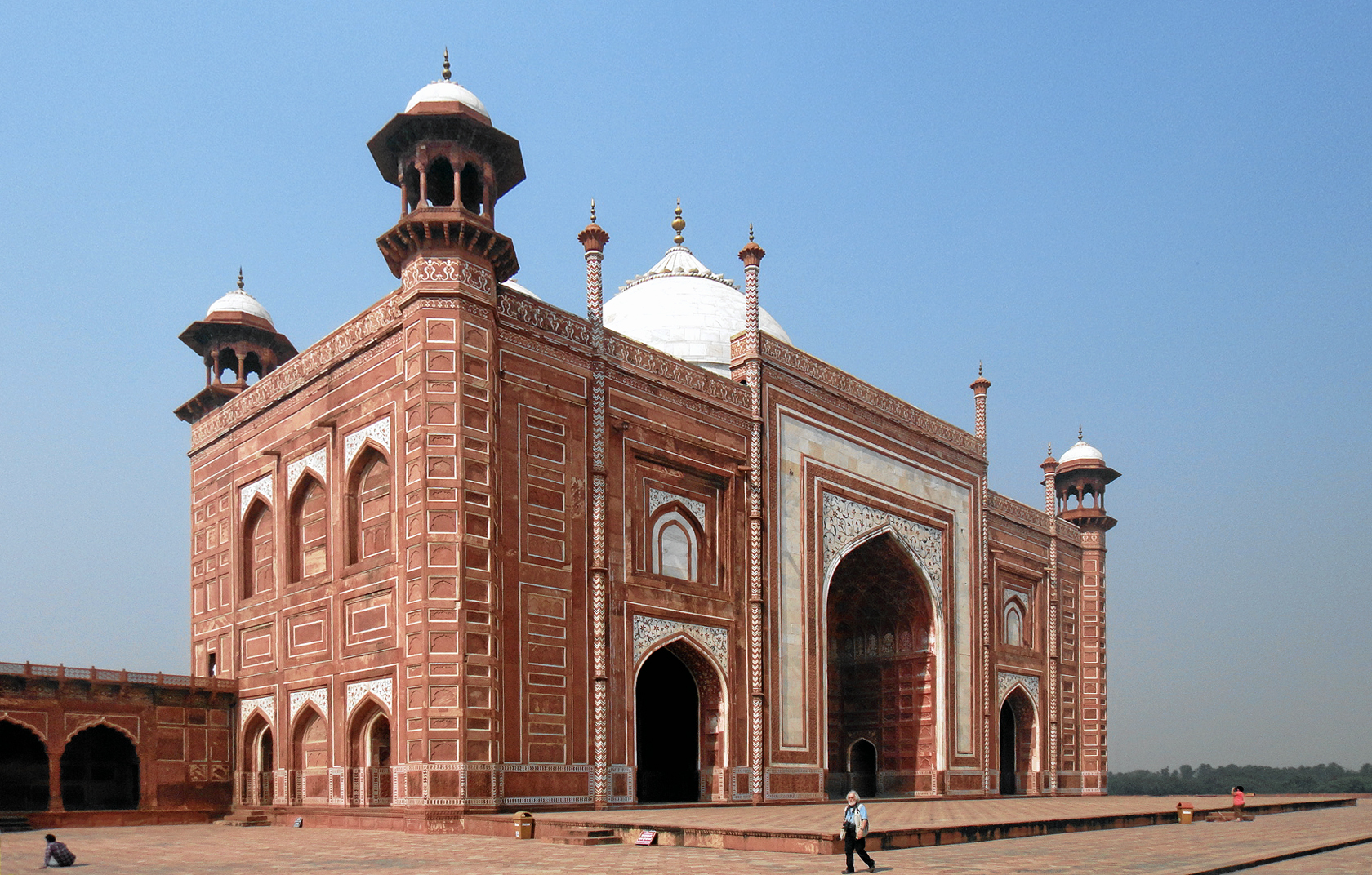 Masjid of Taj Mahal, Agra, India